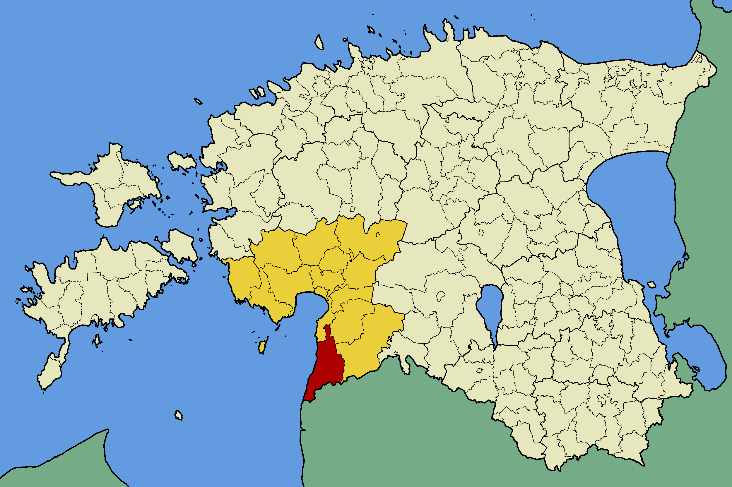 Map of Estonia with borders of municipalities (parishes). Pärnu county and Häädemeeste municipality emphasized.